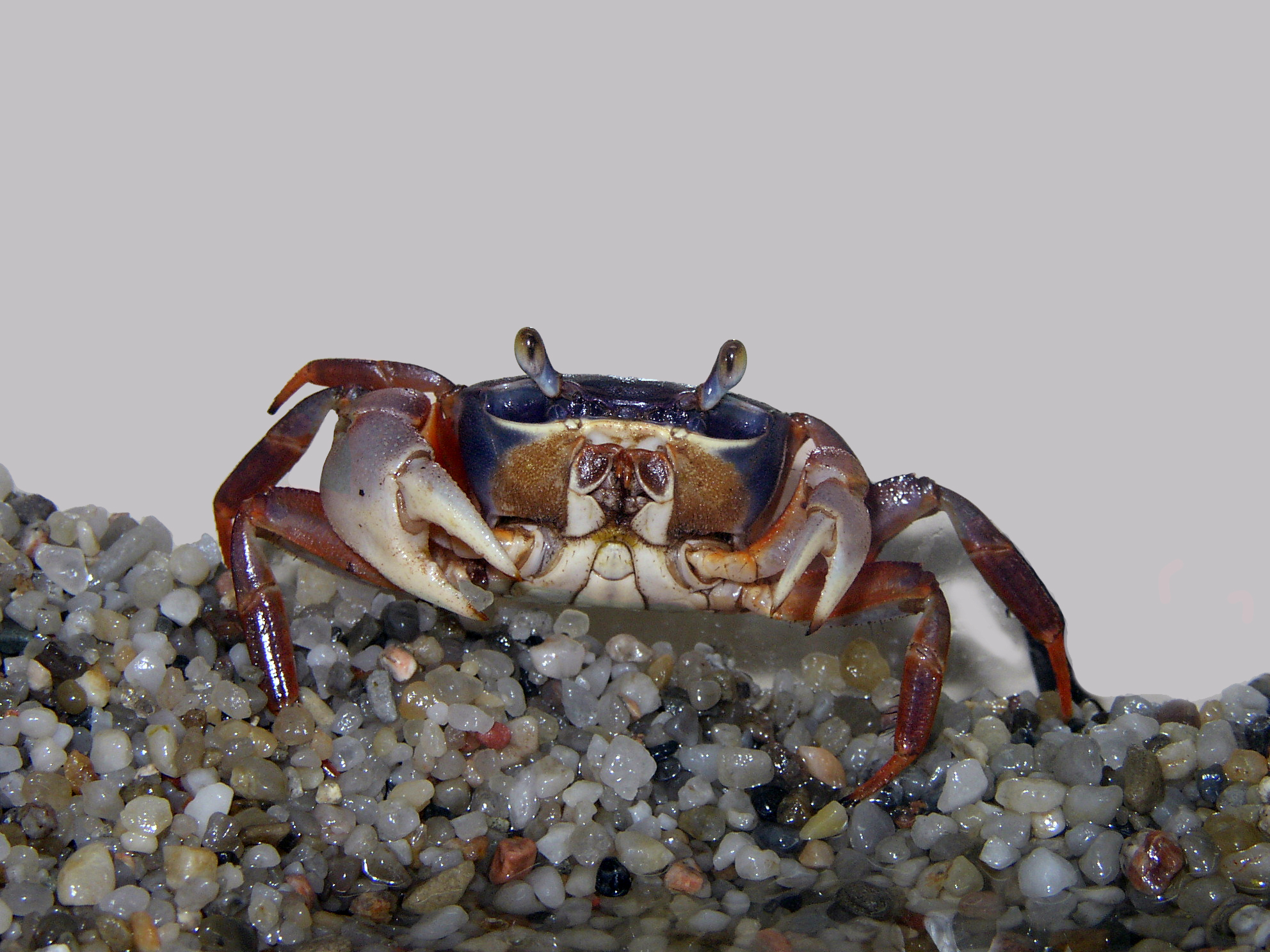 The rainbow crab, corrected version of that